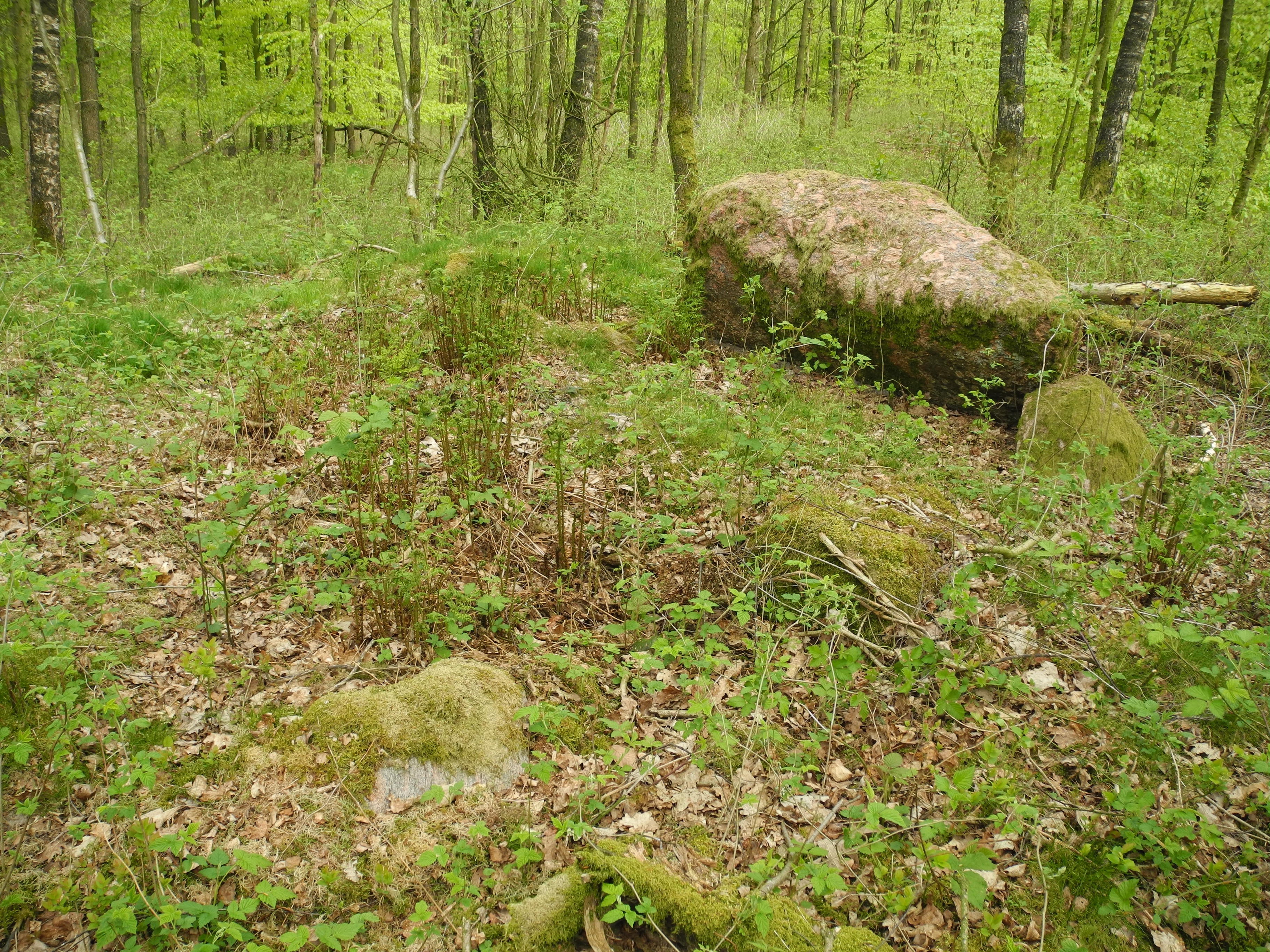 Megalithic tomb "Fuhrenkamp 3" (district Cloppenburg, Lower Saxony, Germany).